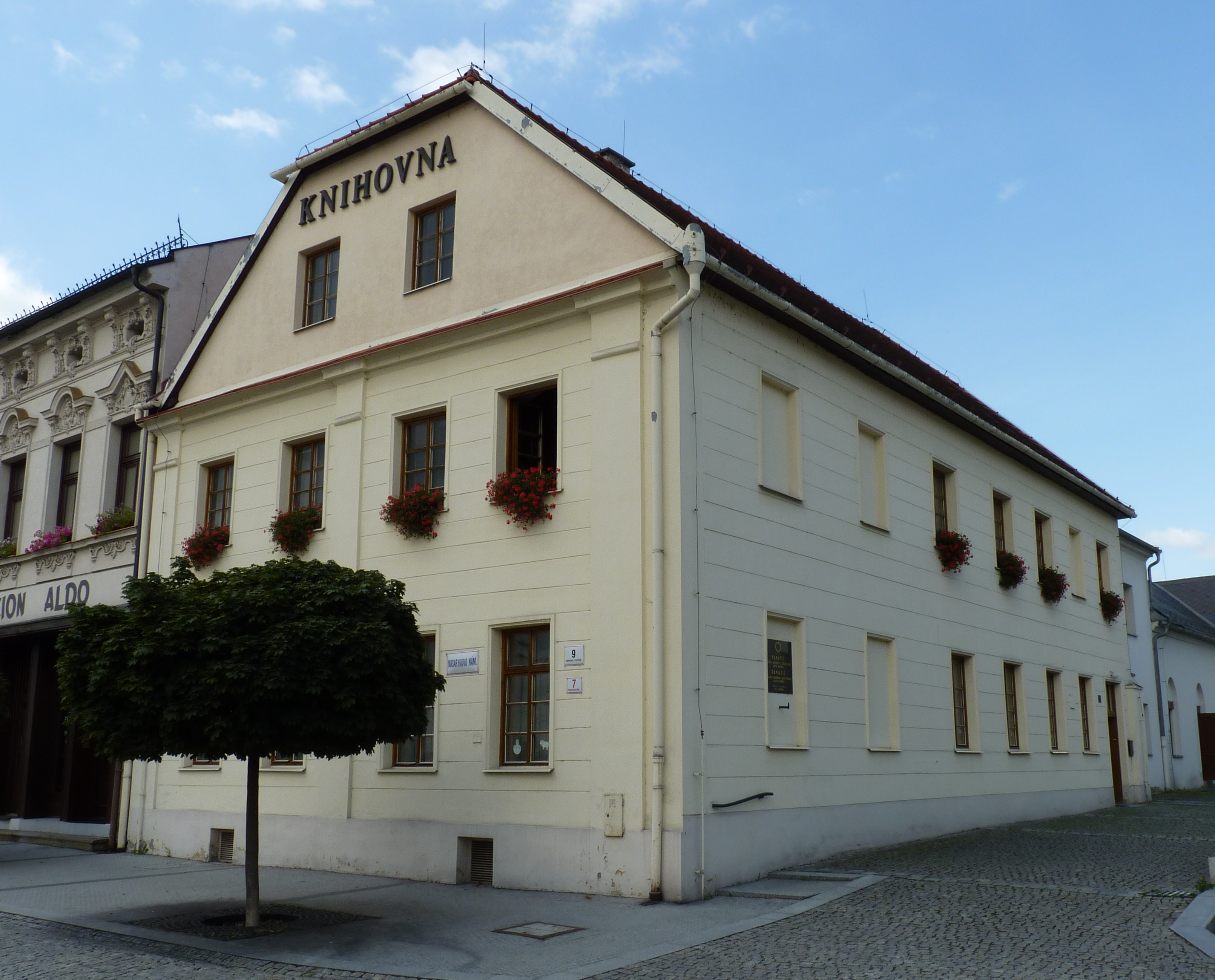 Library in Fryštát. Karviná, Karviná District, Moravian-Silesian Region, Czech Republic